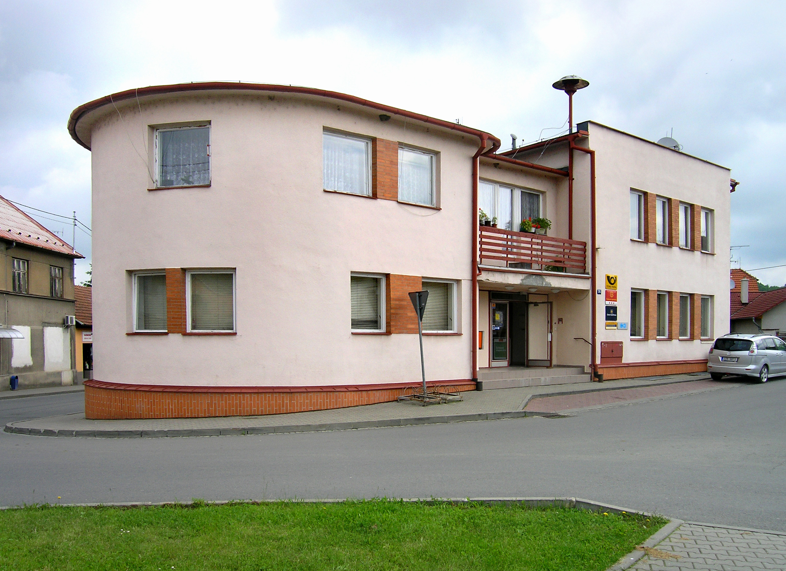 Post office in Želechovice nad Dřevnicí, Czech Republic